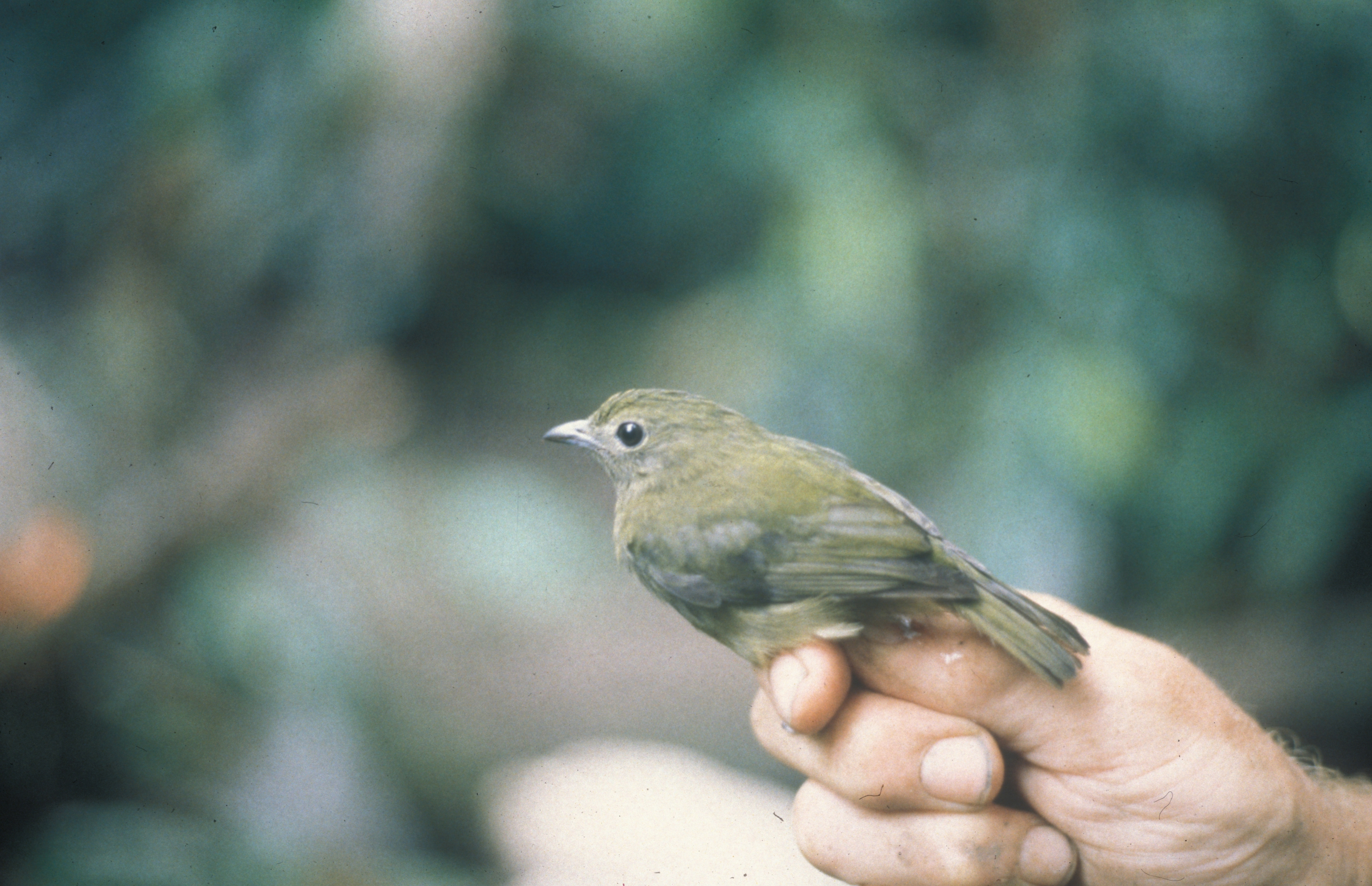 Green Manakin (Xenopipo holochlora) from the NBII Image Gallery. Photographed in Ecuador.